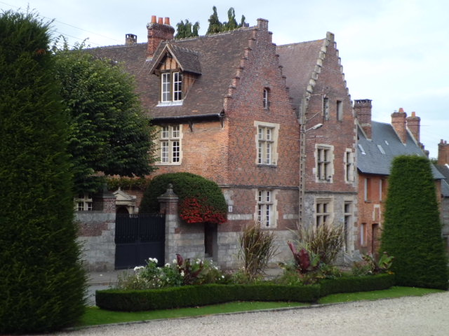 Flemish style at Arques-la-Bataille (Normandy)